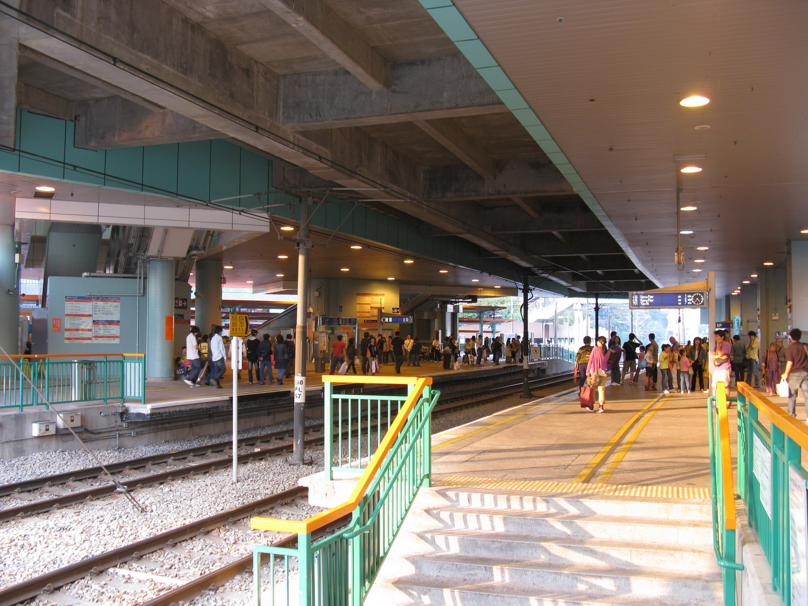 輕鐵 兆康站 1號及2號月台 Platform 1 & 2 of Siu Hong Stop, Light Rail